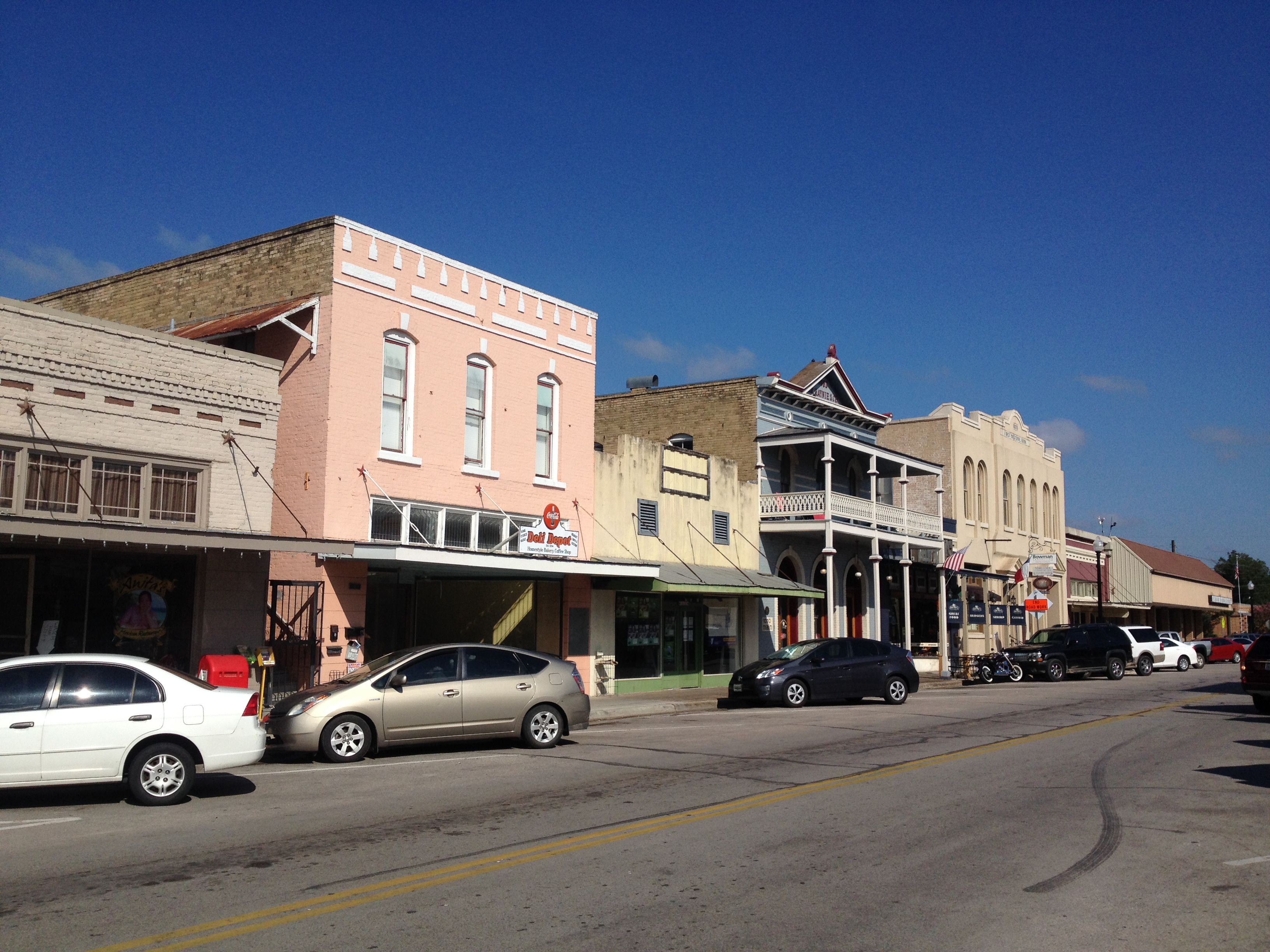 The town of Bastrop Texas.